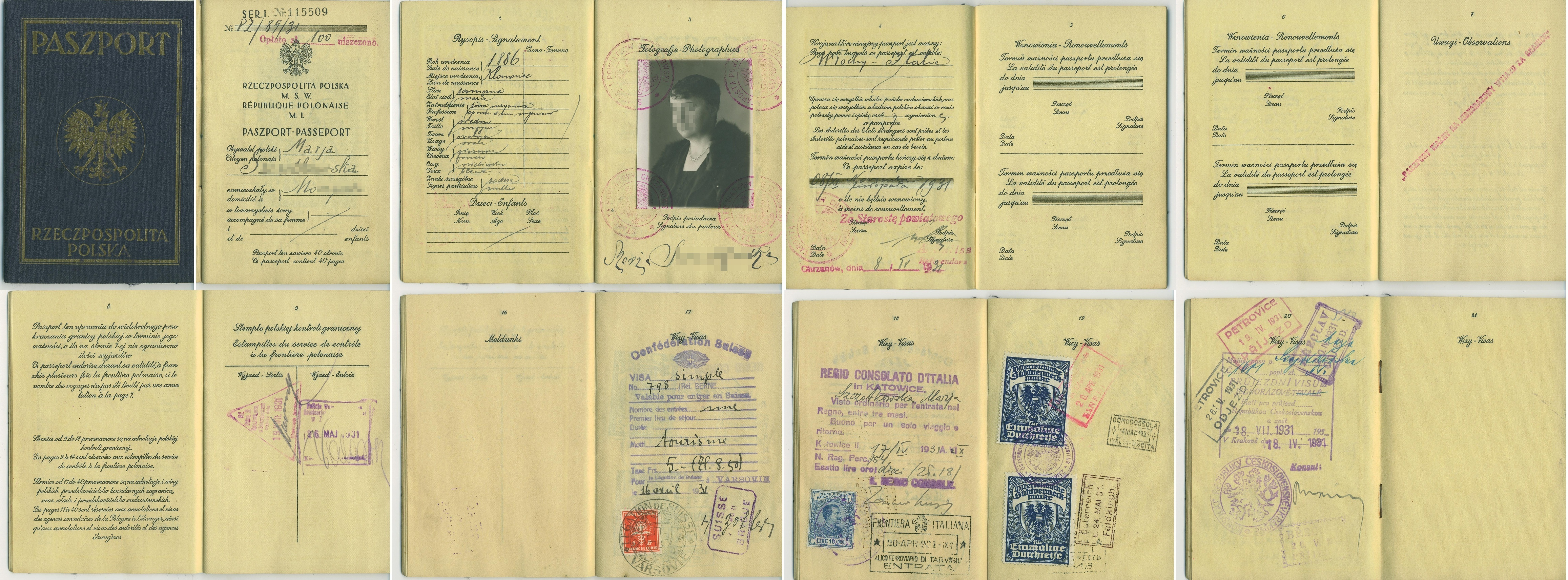 Passport of Polish citizien, 1931 visa of Czechoslovakia visa of Austria visa of Switzerland visa of Italy